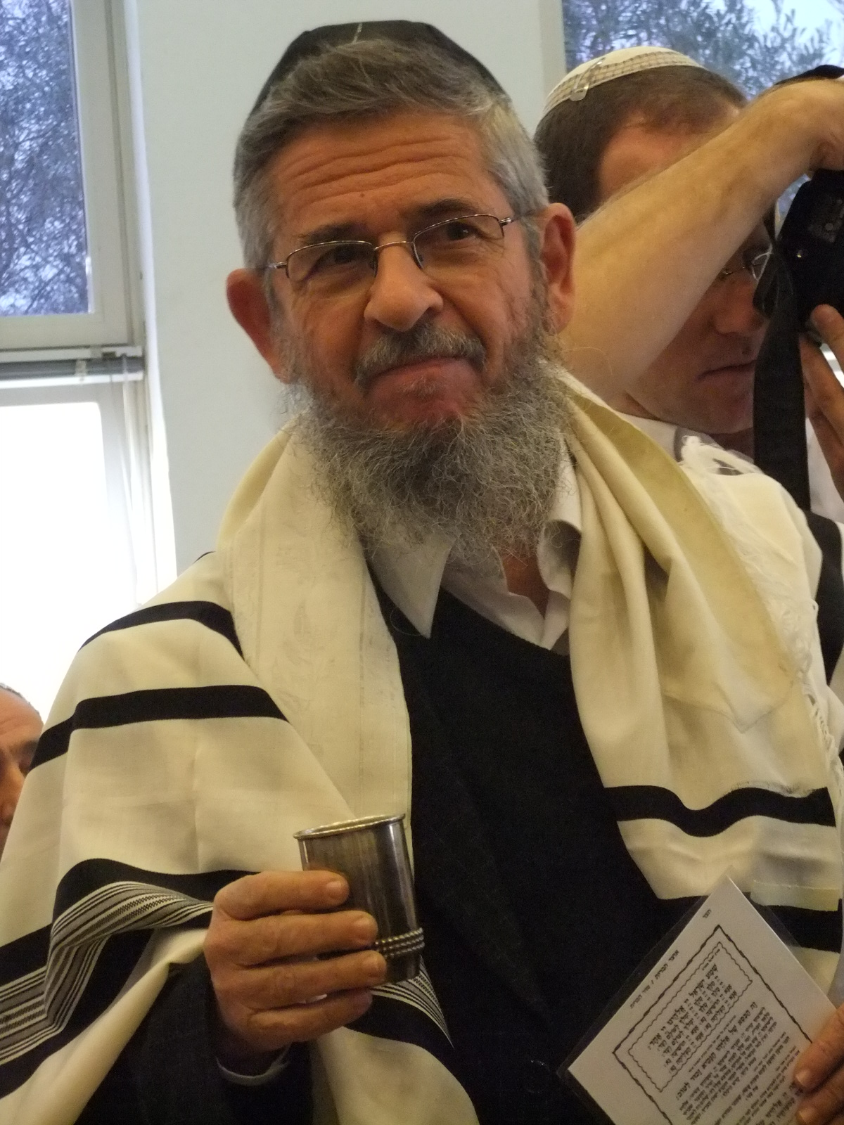 Rabbi Yitzchak Shilat